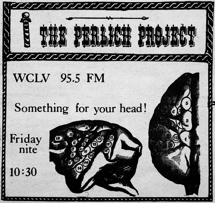 Print ad for radio station WCLV/Cleveland